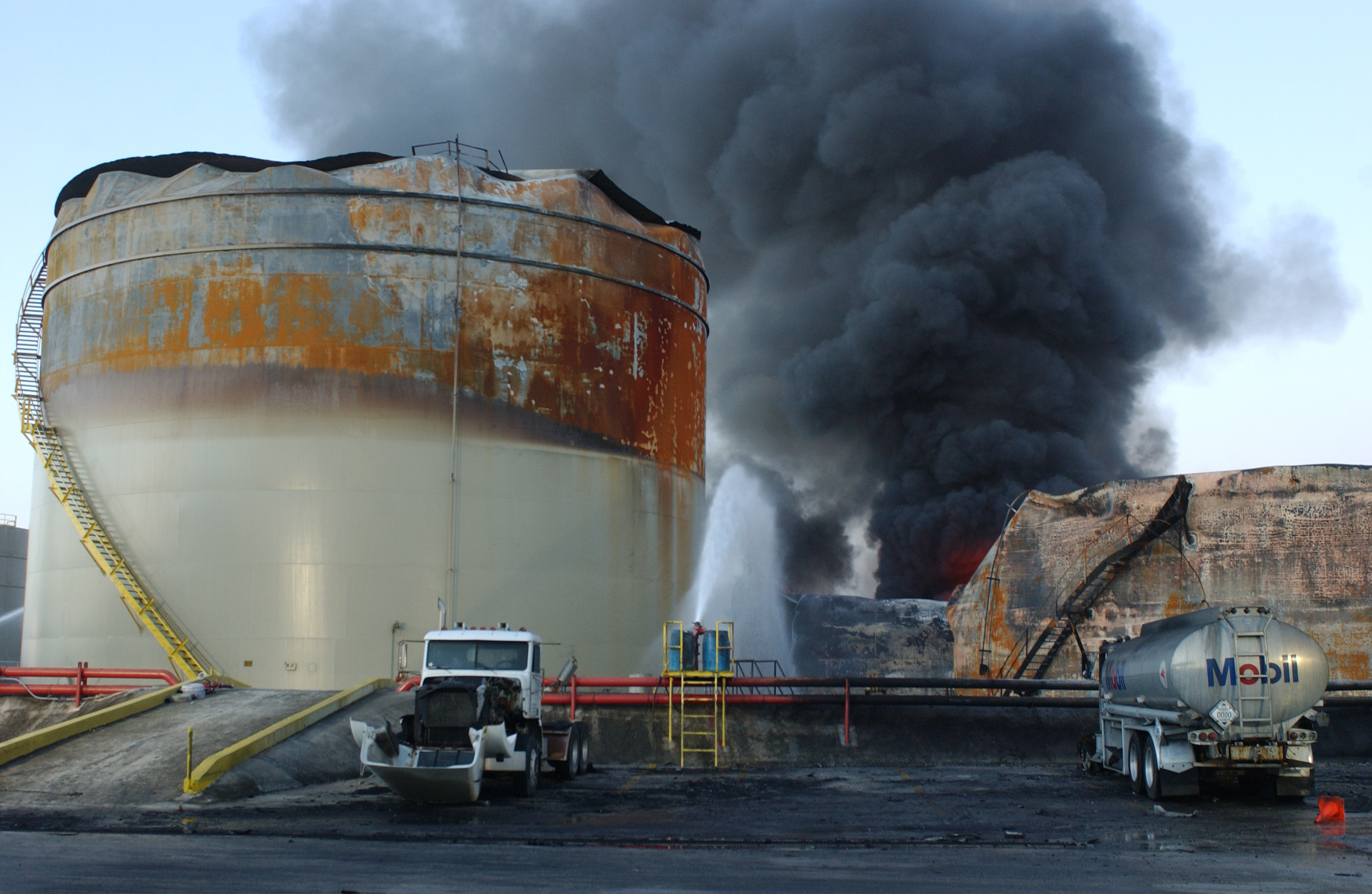 Firefighters extinguished fires from jet fuel tanks that were burning out of control due to Supertyphoon Pongsona. The fire blocked access to gasoline supplies for the island and has caused the shutdown of Apra Harbor, the primary supply and fuel delivery point for Guam. Photo by Andrea Booher/FEMA News Photo